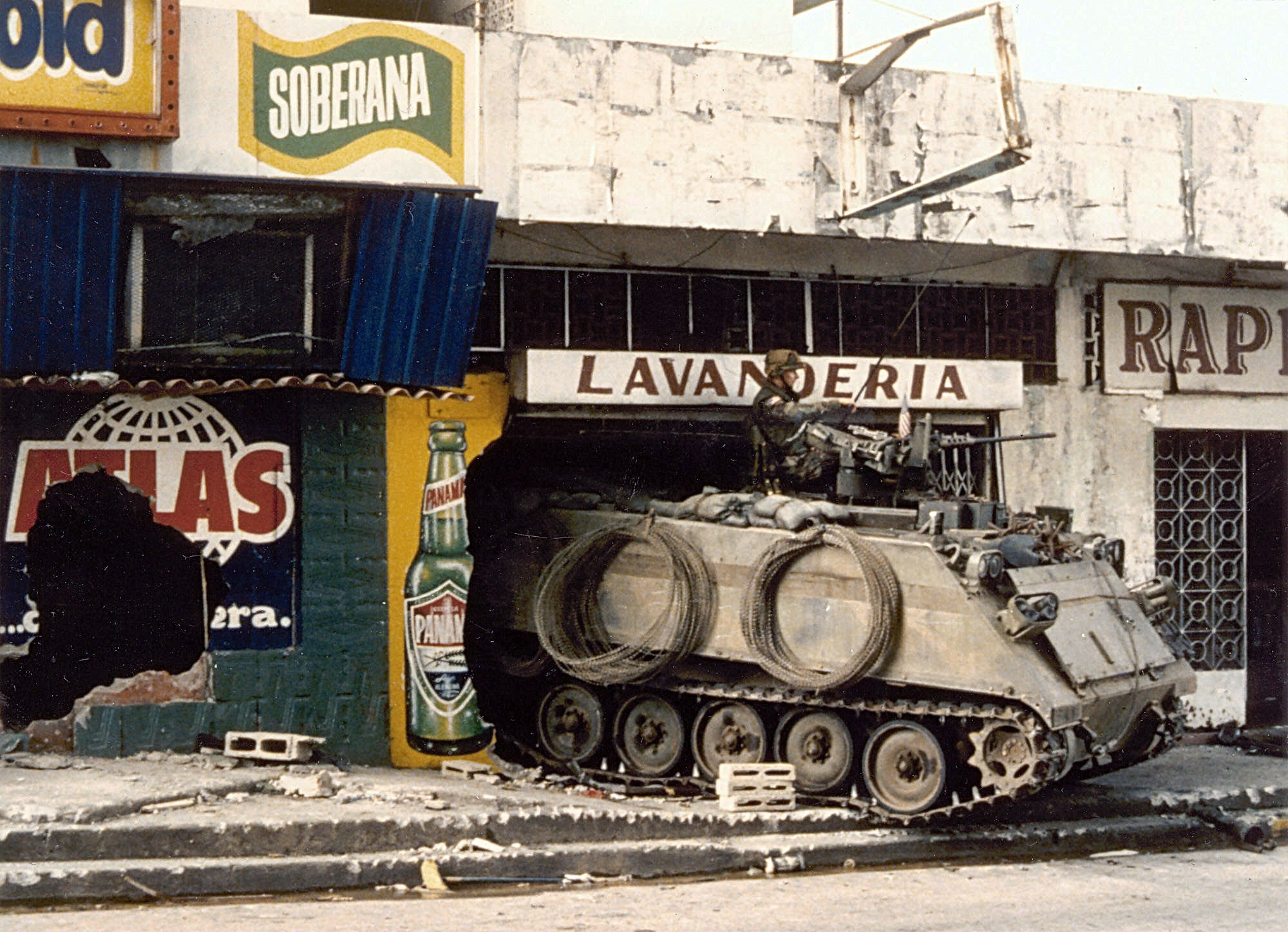 A U.S. Army M113 armored personnel carrier guards a street near the destroyed Panamanian Defense Force headquarters building during the second day of Operation Just Cause.